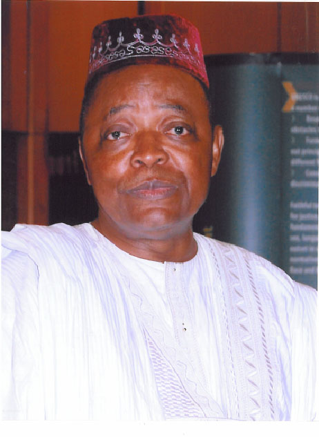 Nouréini Tidjani-Serpos portrait